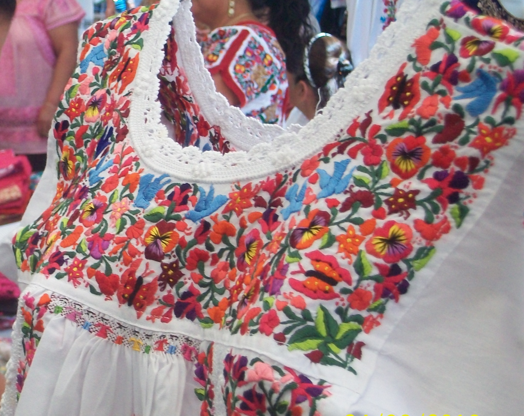 Camisa bordada